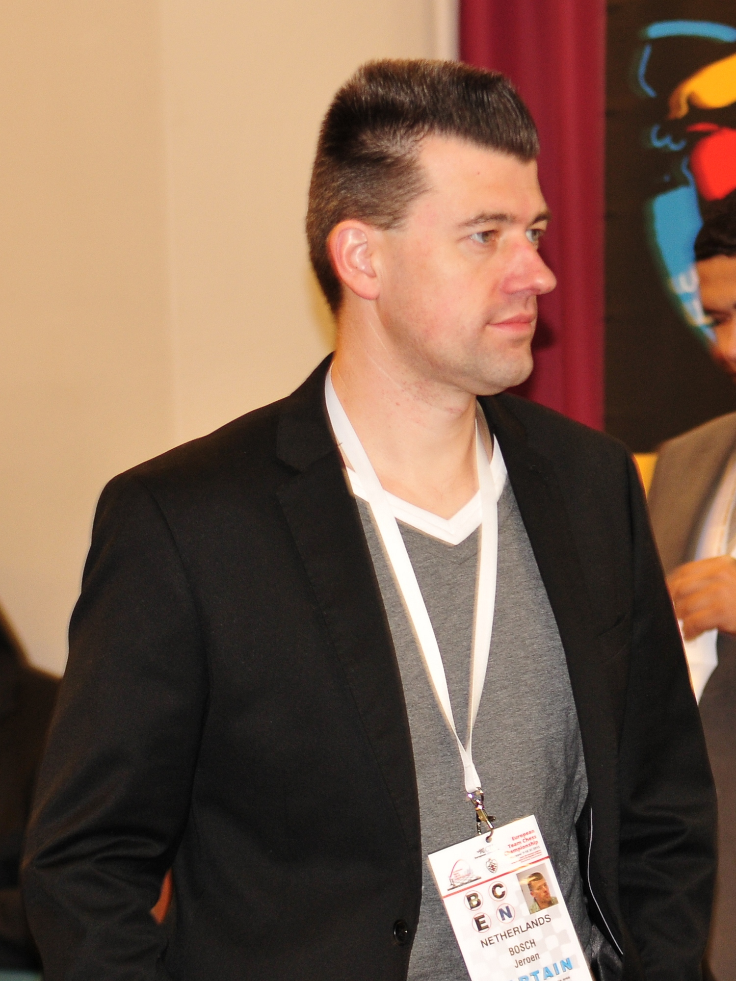 IM Jeroen Bosch, European Chess Team Championship Warsaw 2013